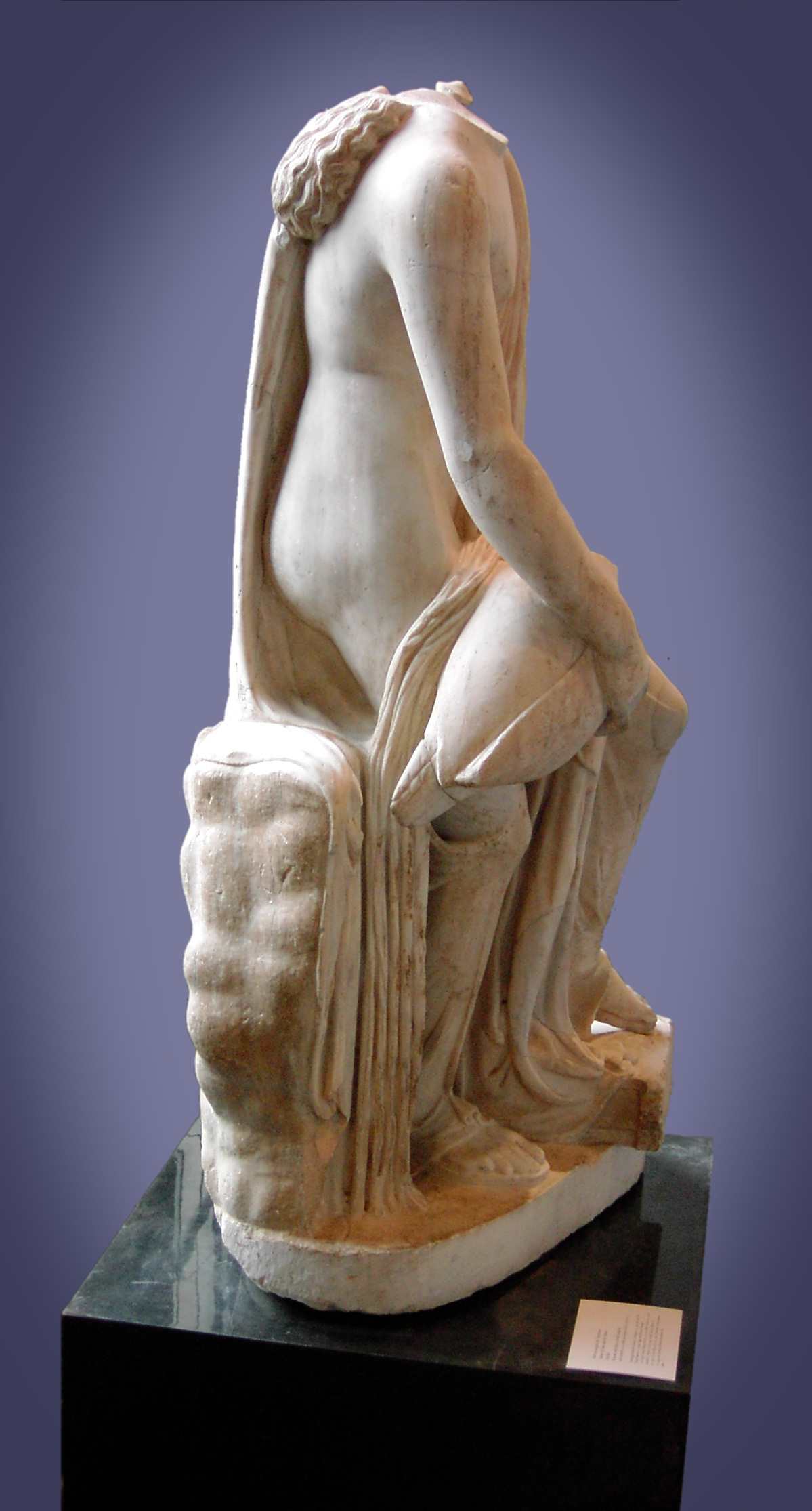 Anonymous (Roman, 2nd century A.D.), after Timotheos (ca. 370 BC). Leda and the Swan. Marble. 108 × 54 × 55 cm (42.5 × 21.3 × 21.7 in). New Haven, Yale University Art Gallery (Inventory number 1986.1.1). Described in catalog as "After an original attributed to Timotheos, Statue of Leda and the Swan. Roman copy after a Greek original; 2nd century A.D., after an original of ca. 370 B.C. Marble, 42 1/2 x 21 1/4 x 21 5/8 in. (108 x 54 x 55 cm)"